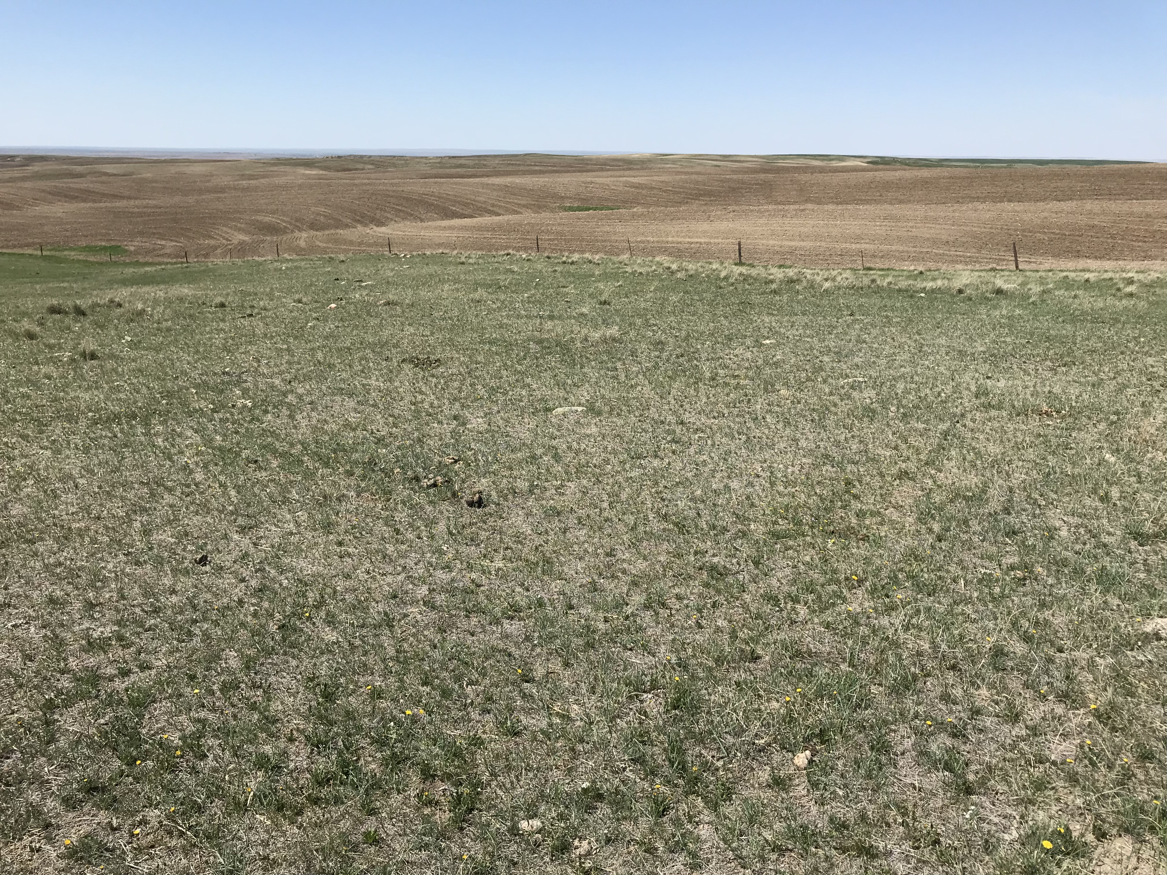 A typical landscape in McCone County, MT, taken just west of MT 13 in between Wolf Point, MT and Vida, MT.